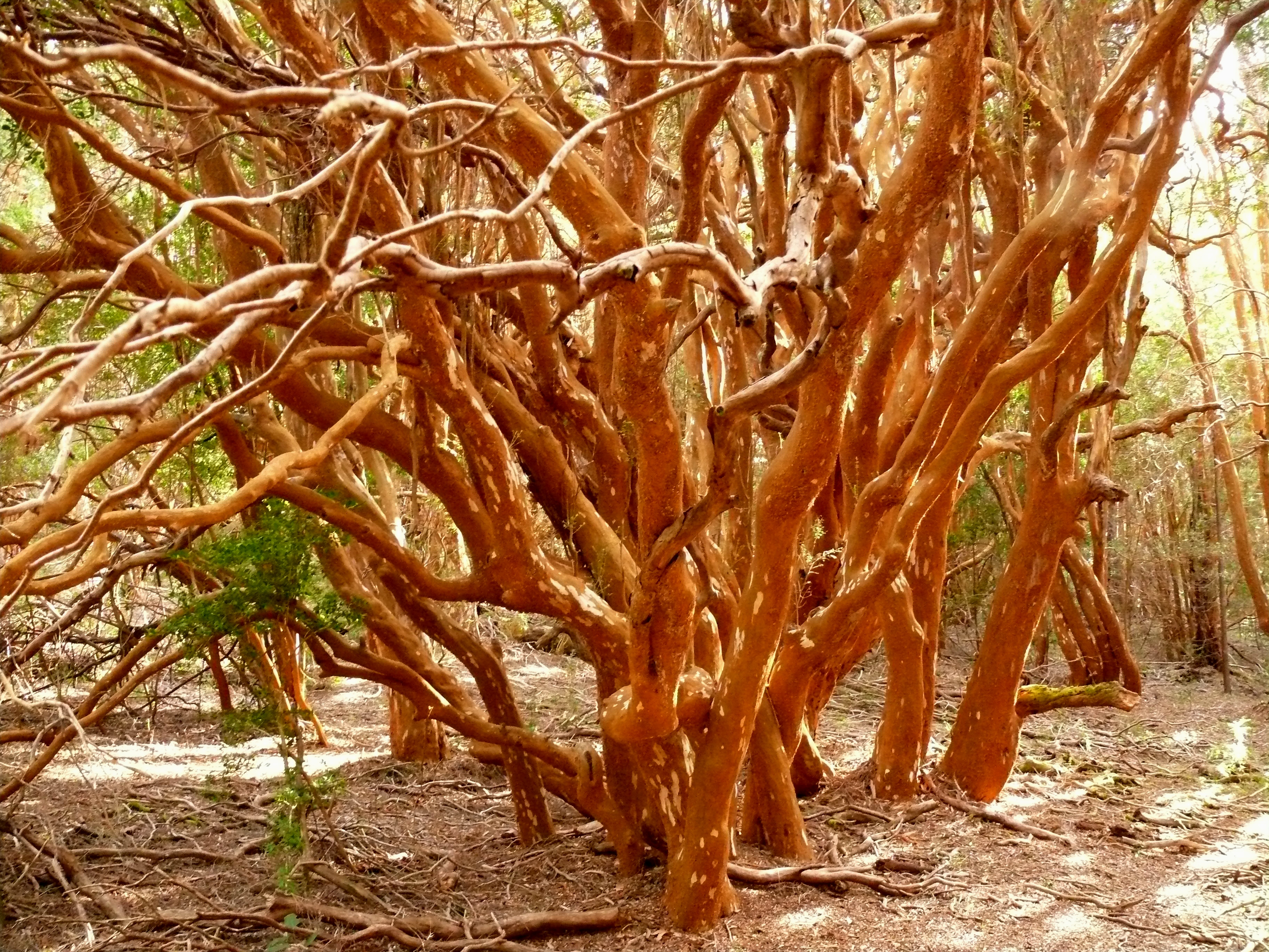 Luma apiculata tree